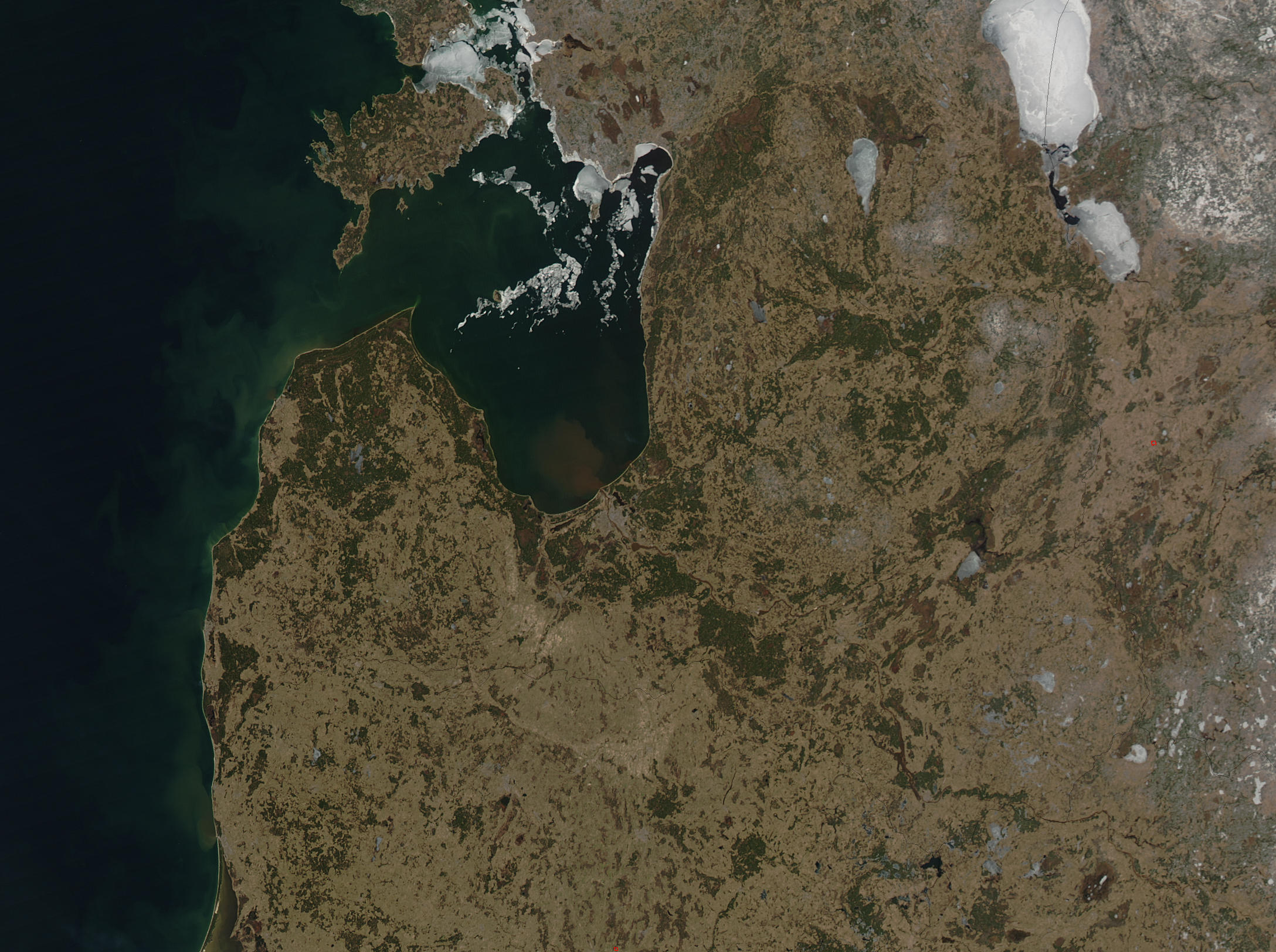 Latvia from space. A small red dot marks the location of fires burning in countries south and east of the Baltic Sea.